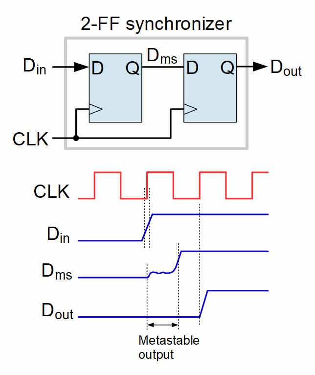 A 2 flip-flop synchronizer, which uses two D flip-flops to synchronize an asynchronous binary input signal to a clock. The first flip flop performs synchronization. The second flip flop reduces the frequency of errors due to metastability.